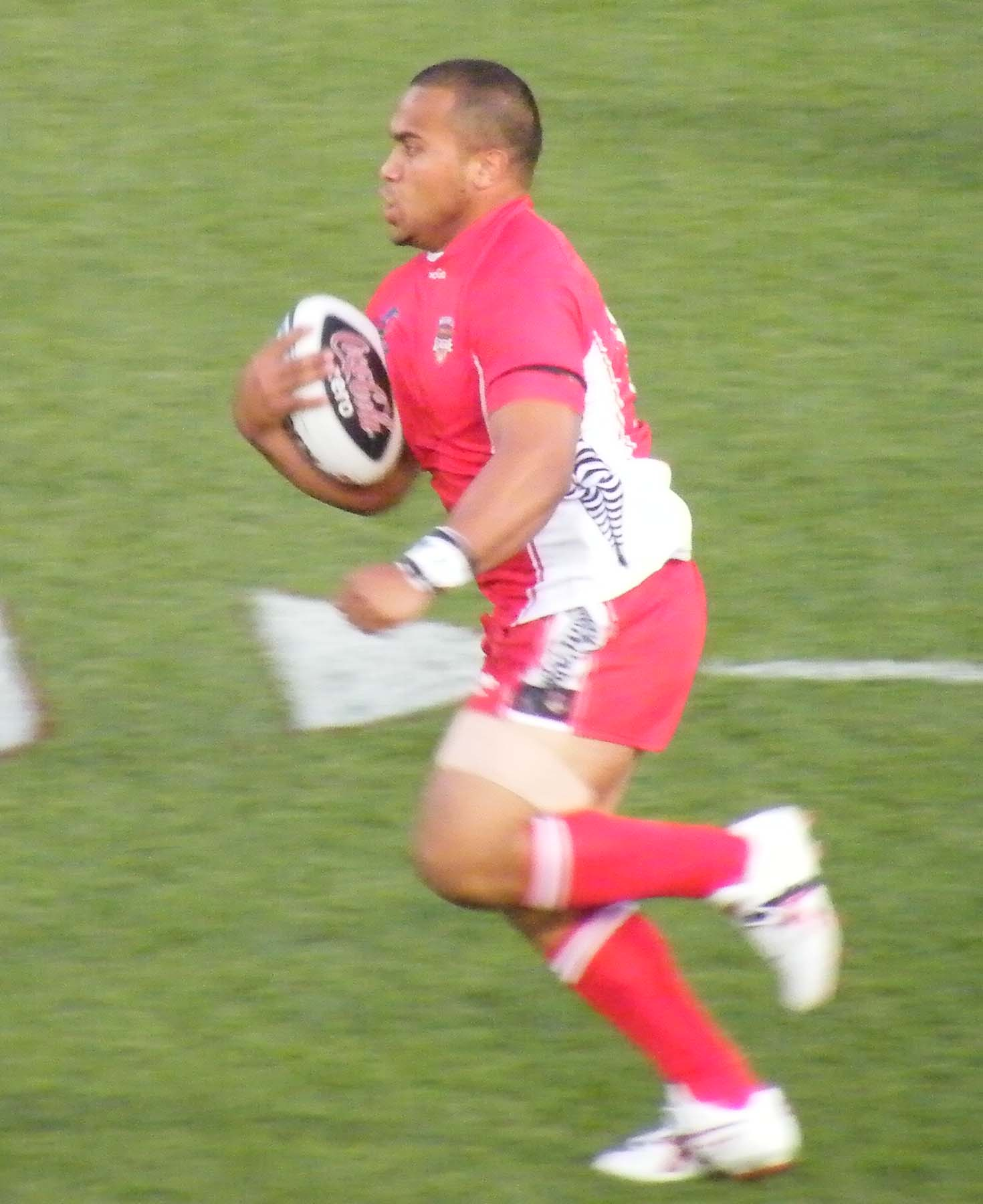 Tongan interchange Sam Moa. RLWC Ireland v Tonga, Parramatta 2008.